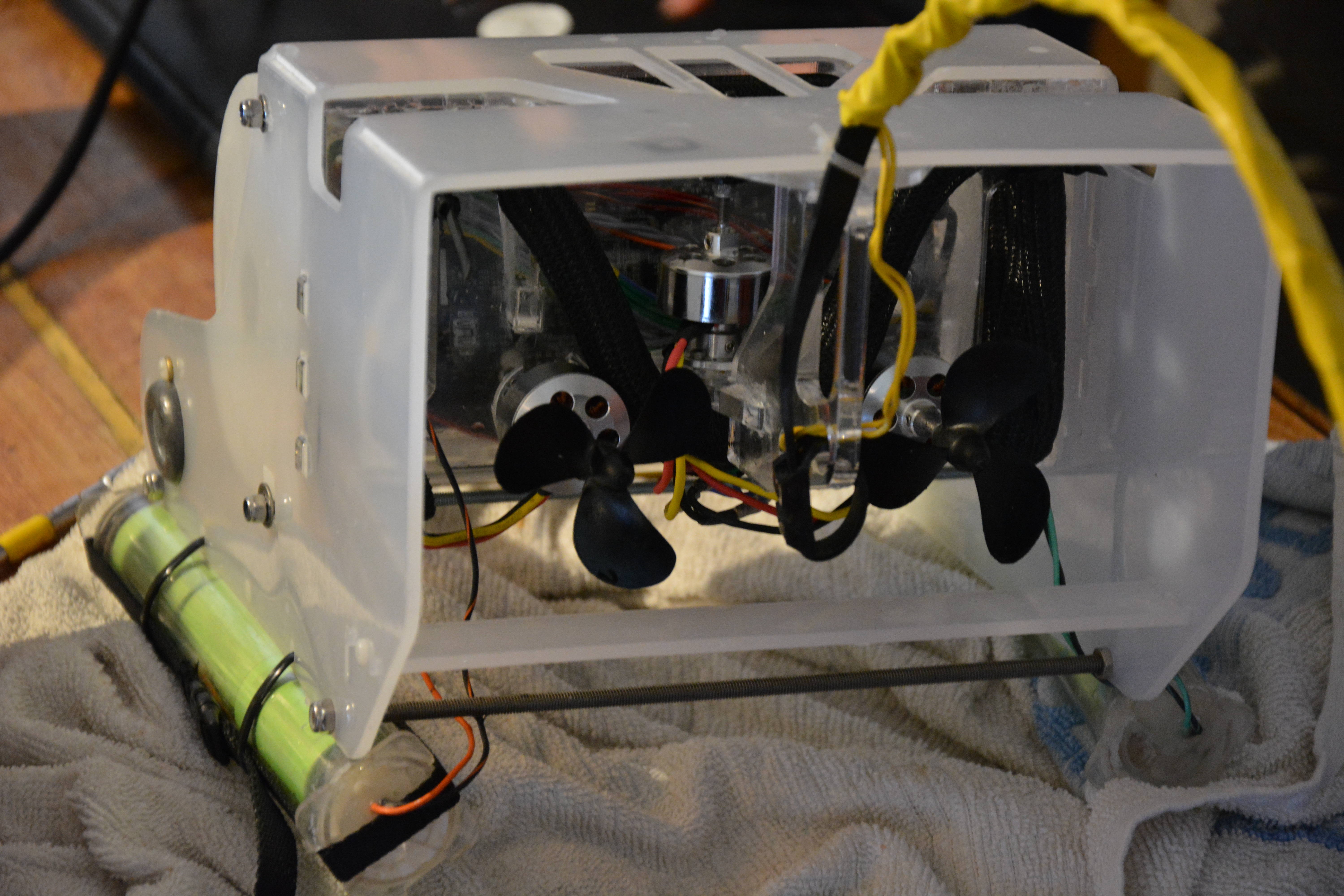 Open ROV build by the Explore Foundation